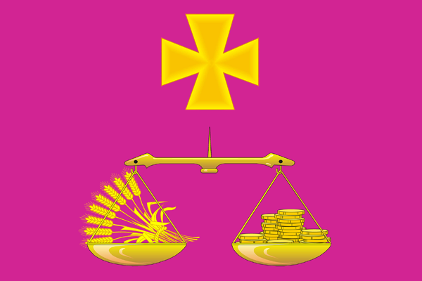 Flag of Starominskoe, Krasnodar krai, Russia